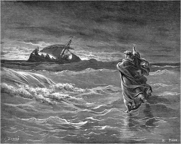 Gustave Dore - Jesus walks on the sea